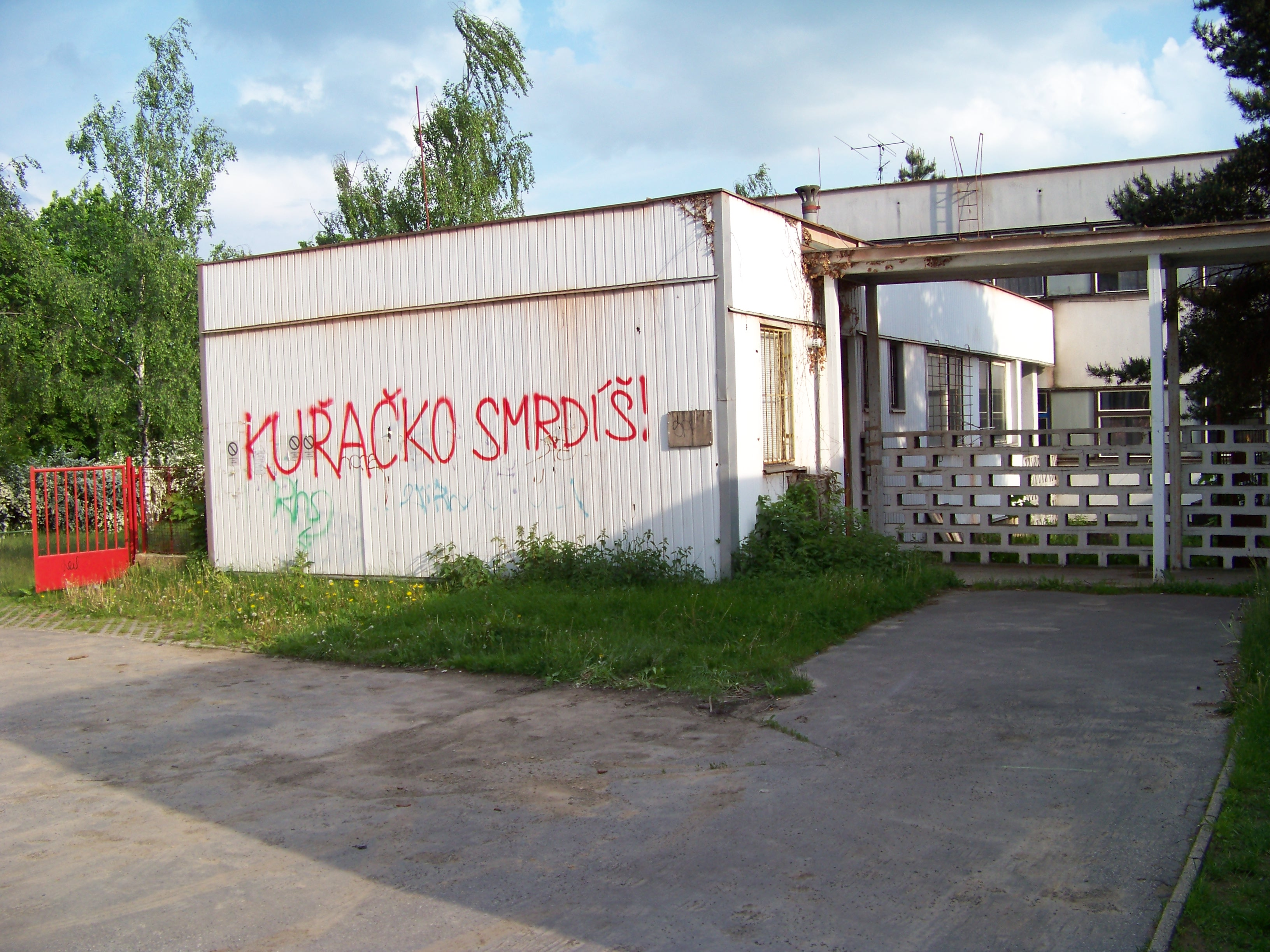 Chodov, Prague, the Czech Republic. Opatov Housing Estate, Modletická street. "Smoker-girl, you stink!"